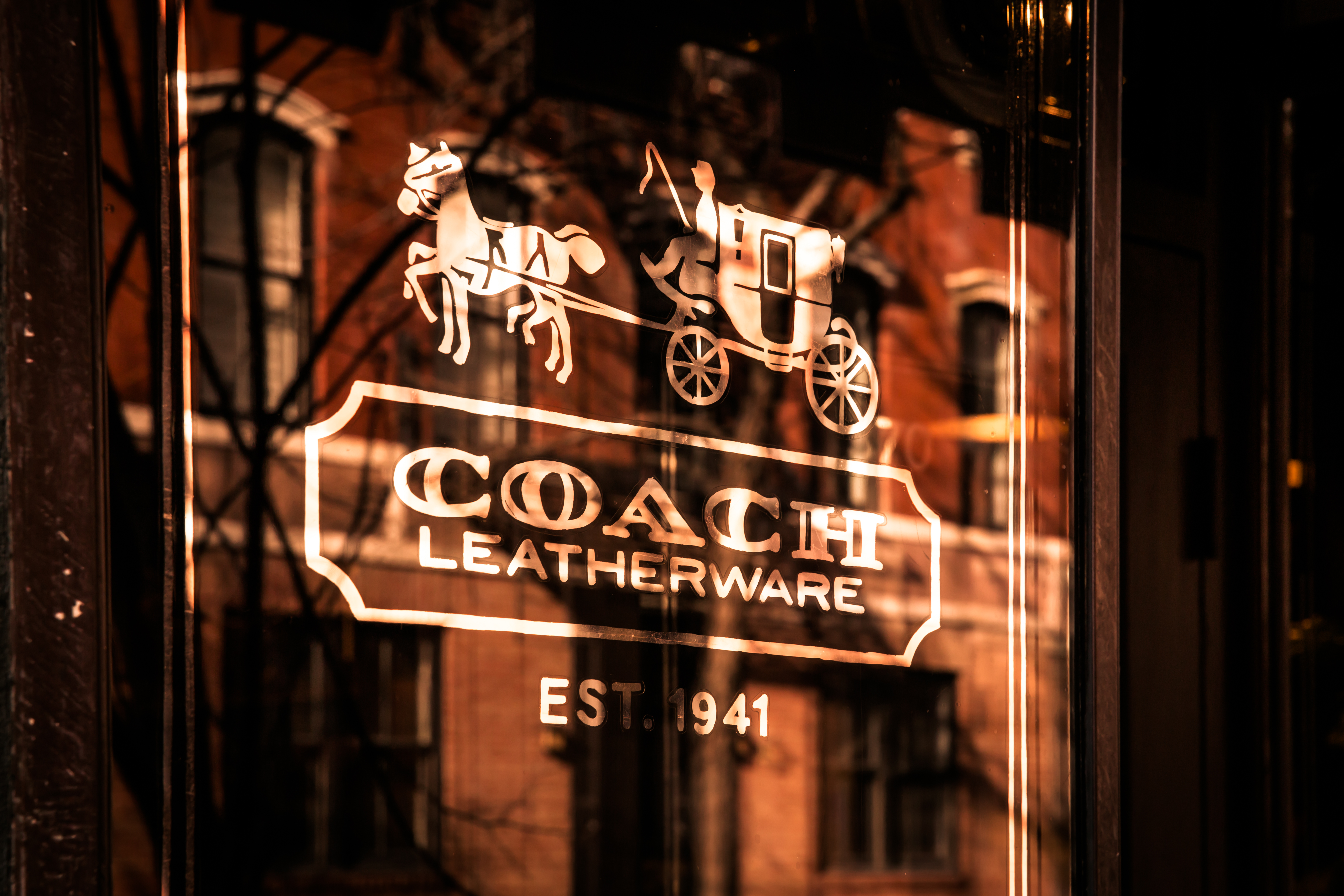 Coach Bleecker Street, 372-374 Bleecker street, New York, NY 10014, USA - Jan 2013